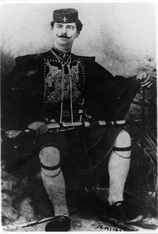 Lakis Dailakis as Macedonian fighter